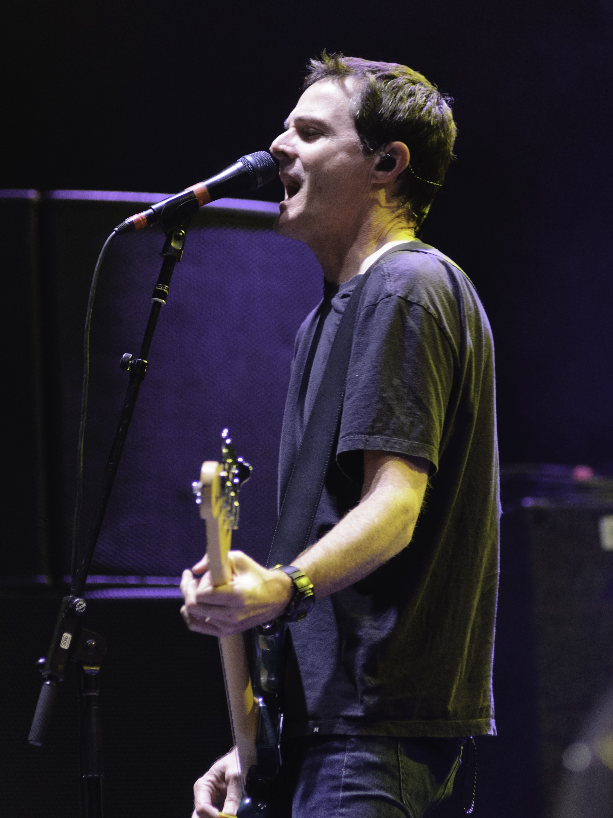 Greg K. at Rock Allegiance 2016.